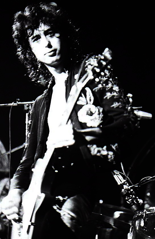 Jimmy Page in concert